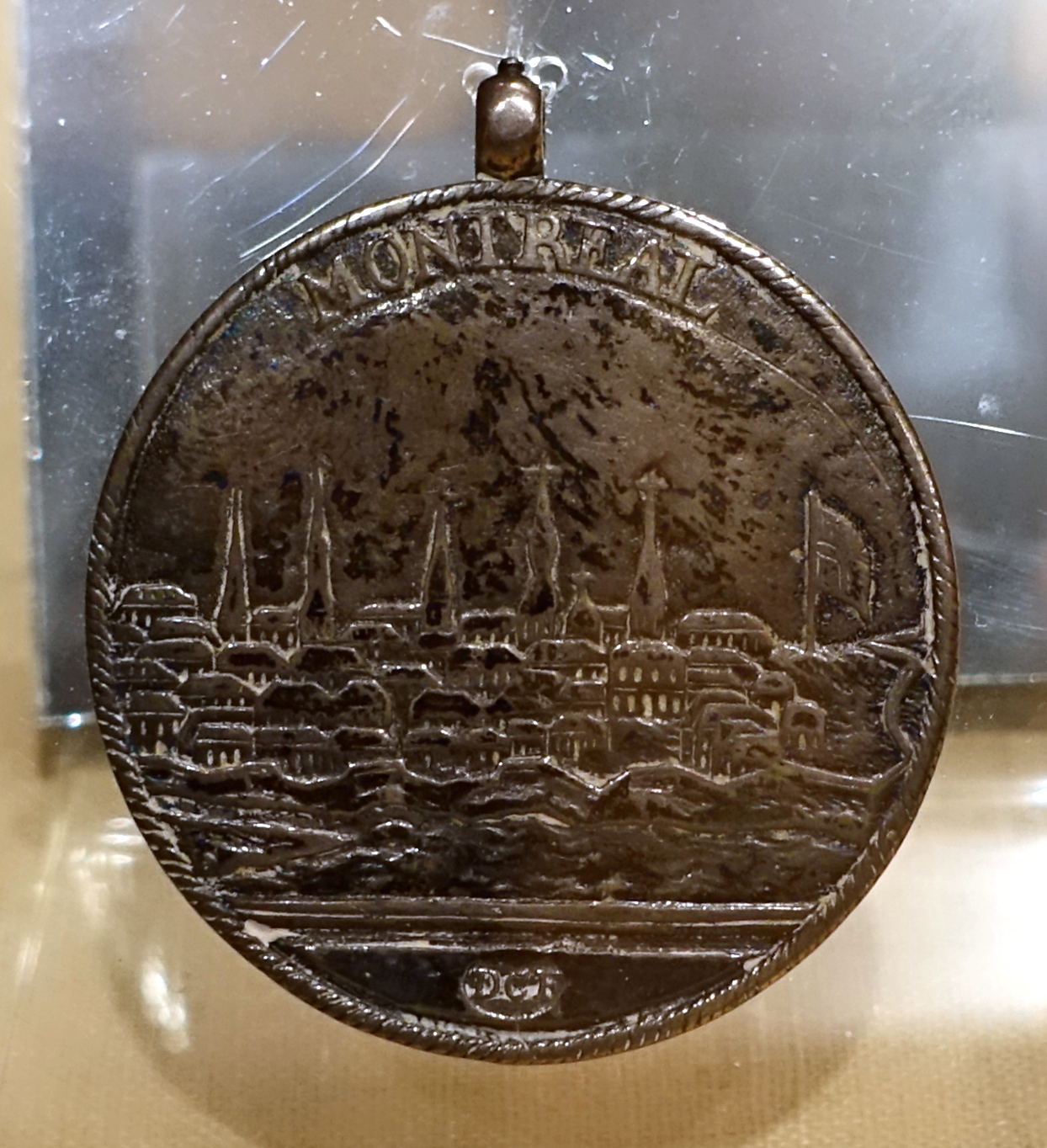 Exhibit in the Château Ramezay - Montreal, Quebec, Canada.